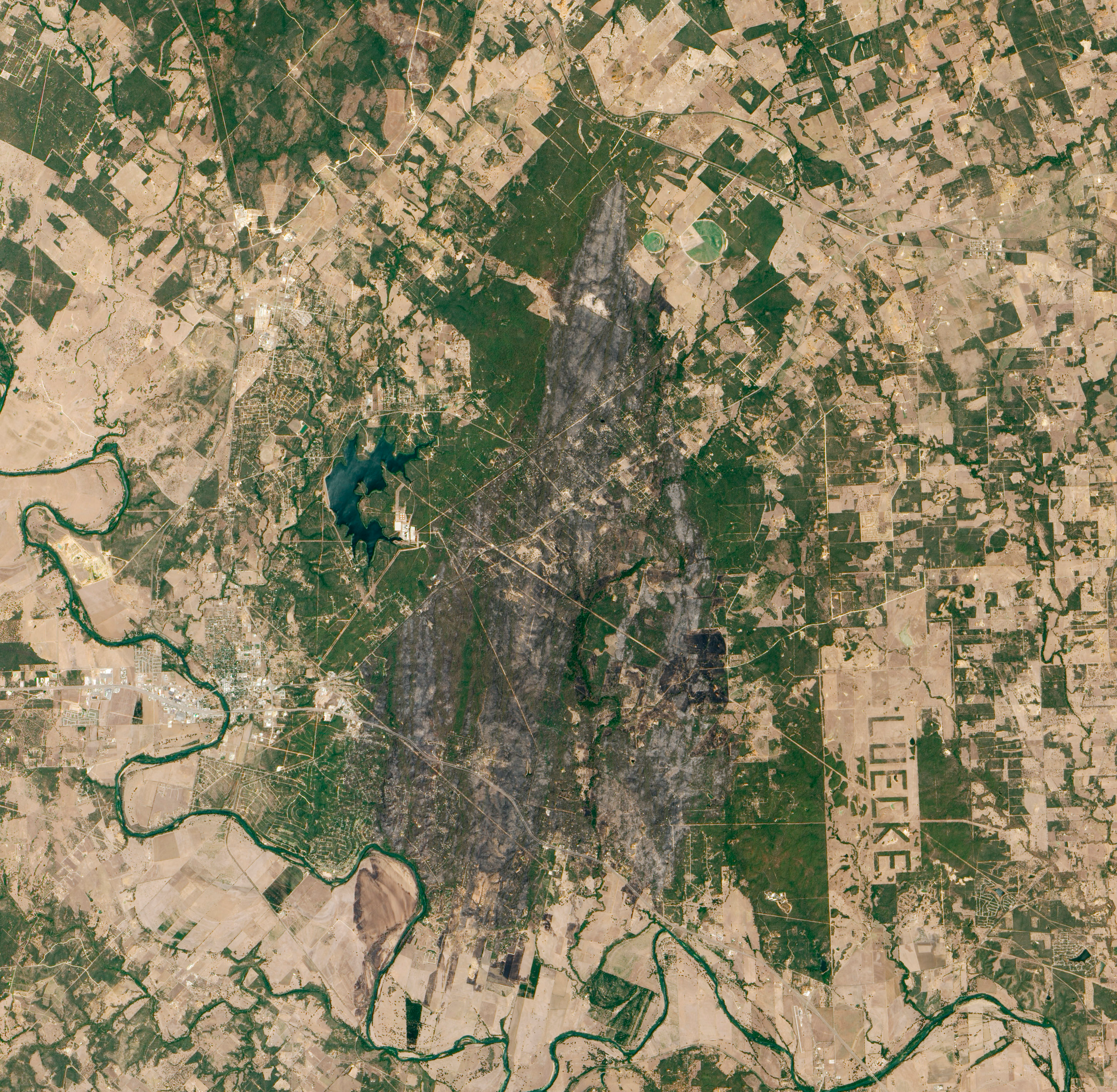 Image of the burn scar left behind by a massive wildfire near Bastrop that began on September 4, 2011.